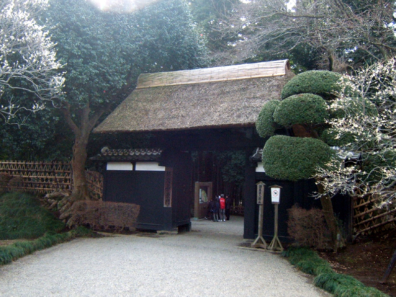 Kairaku-en old front gate. Mito, Ibaraki, Japan.